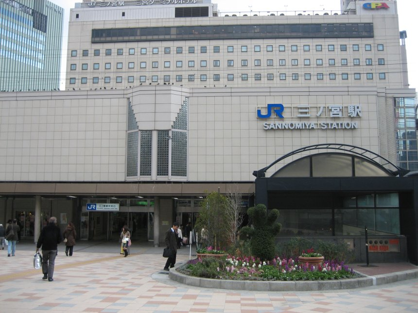 JR Sannomiya Station Chuo-guchi, Kobe, Japan